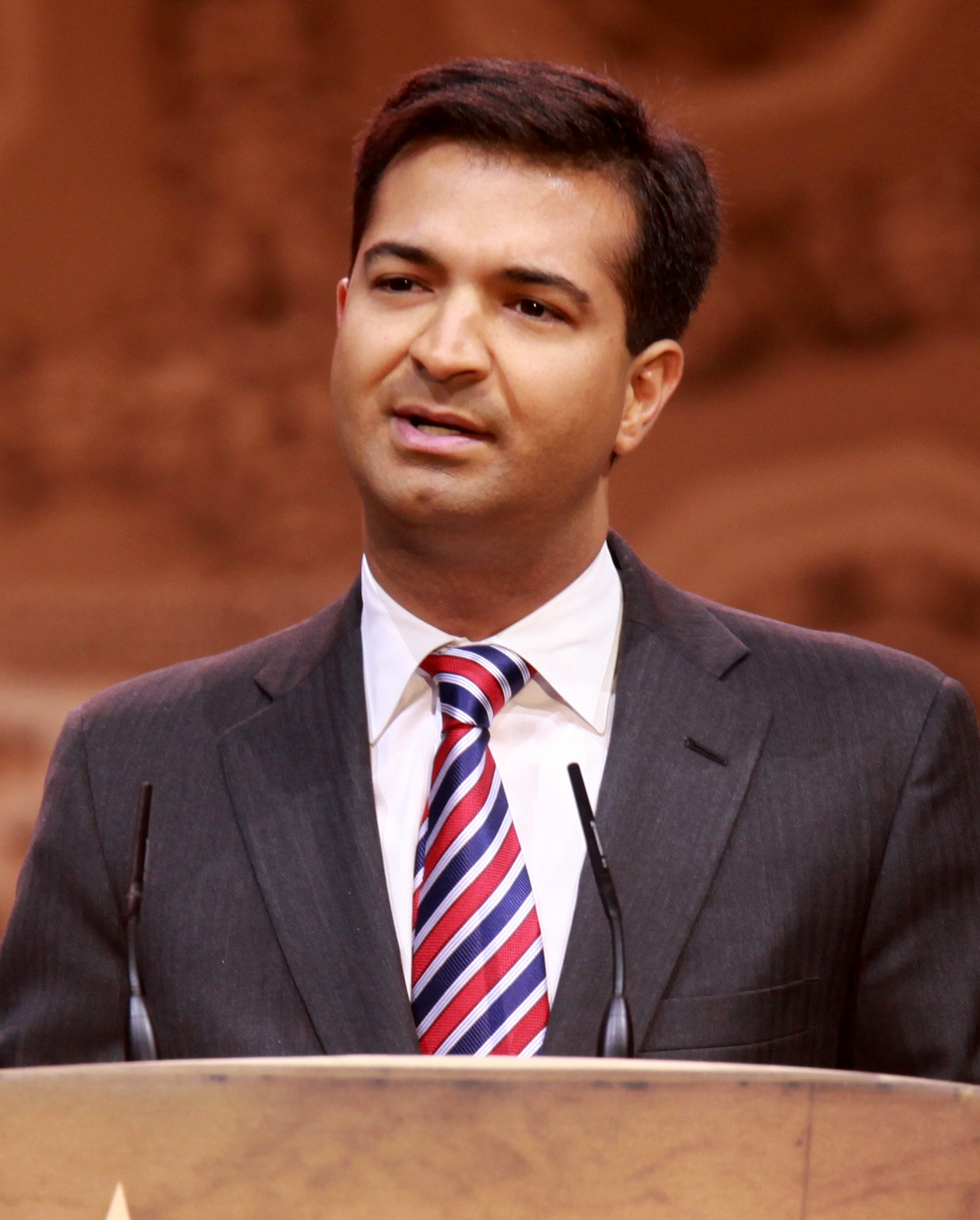 Carlos Curbelo at CPAC